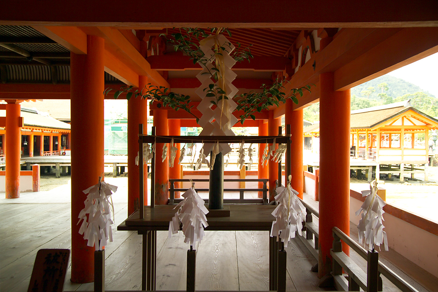 Paper offerings inside building at Itsukushima Shrine, Miyajima, Hiroshima Prefecture, Japan. I took this photo and contribute my rights in the file to the public domain; people and organizations retain rights to images in it.